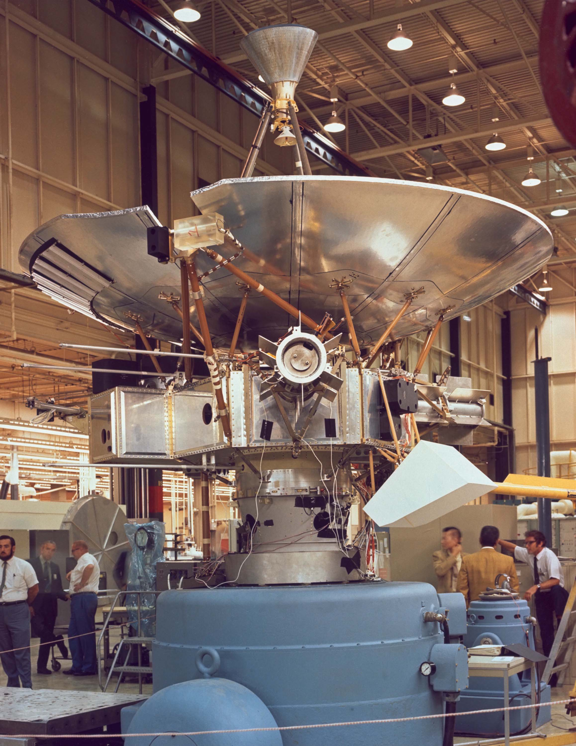 Pioneer 10 in the final stage of construction in at the TRW plant in Southern California.